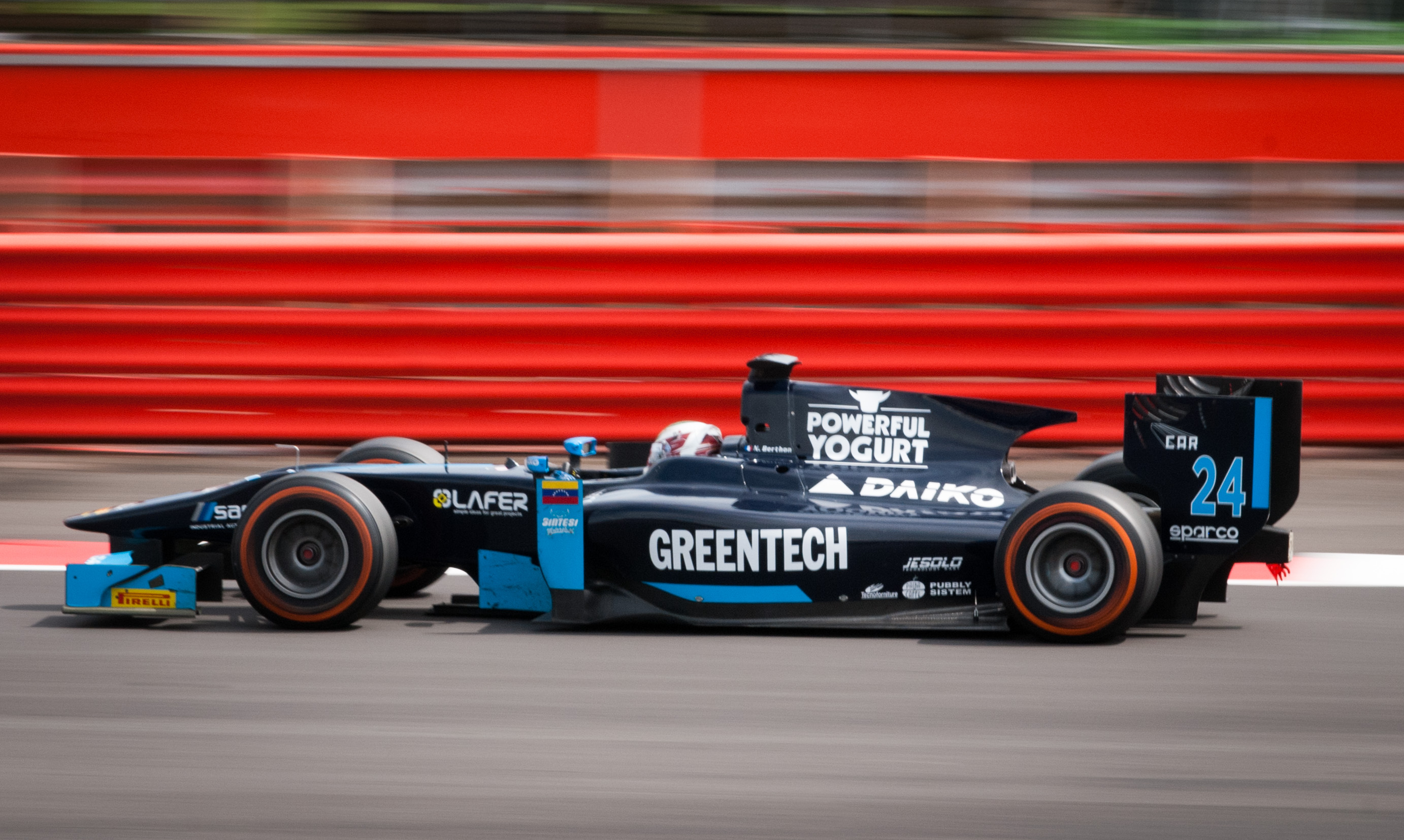 Nathanaël Berthon driving for Team Lazarus at Silverstone. Round 5 of the 2014 GP2 Series Championship.